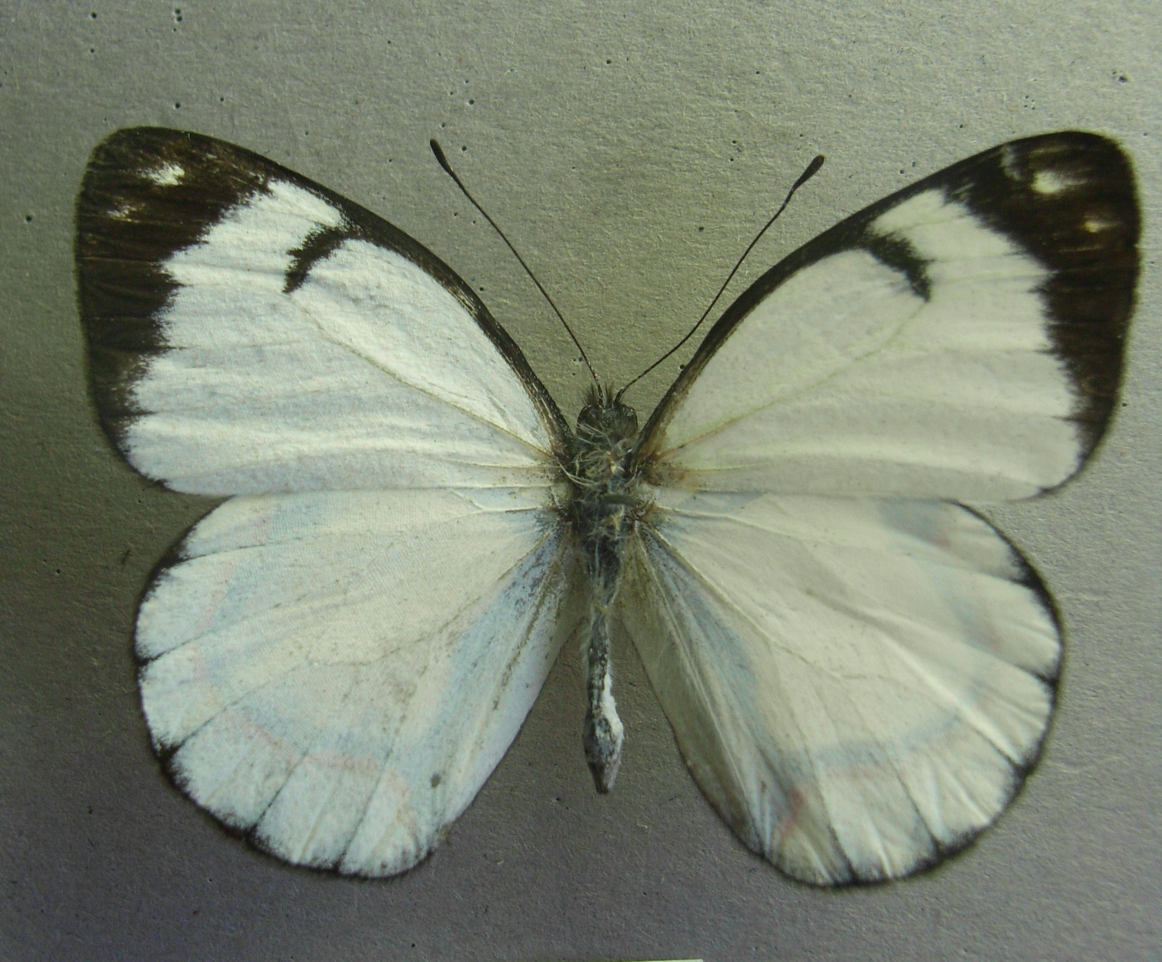 Delias iltis Ribbe, 1900